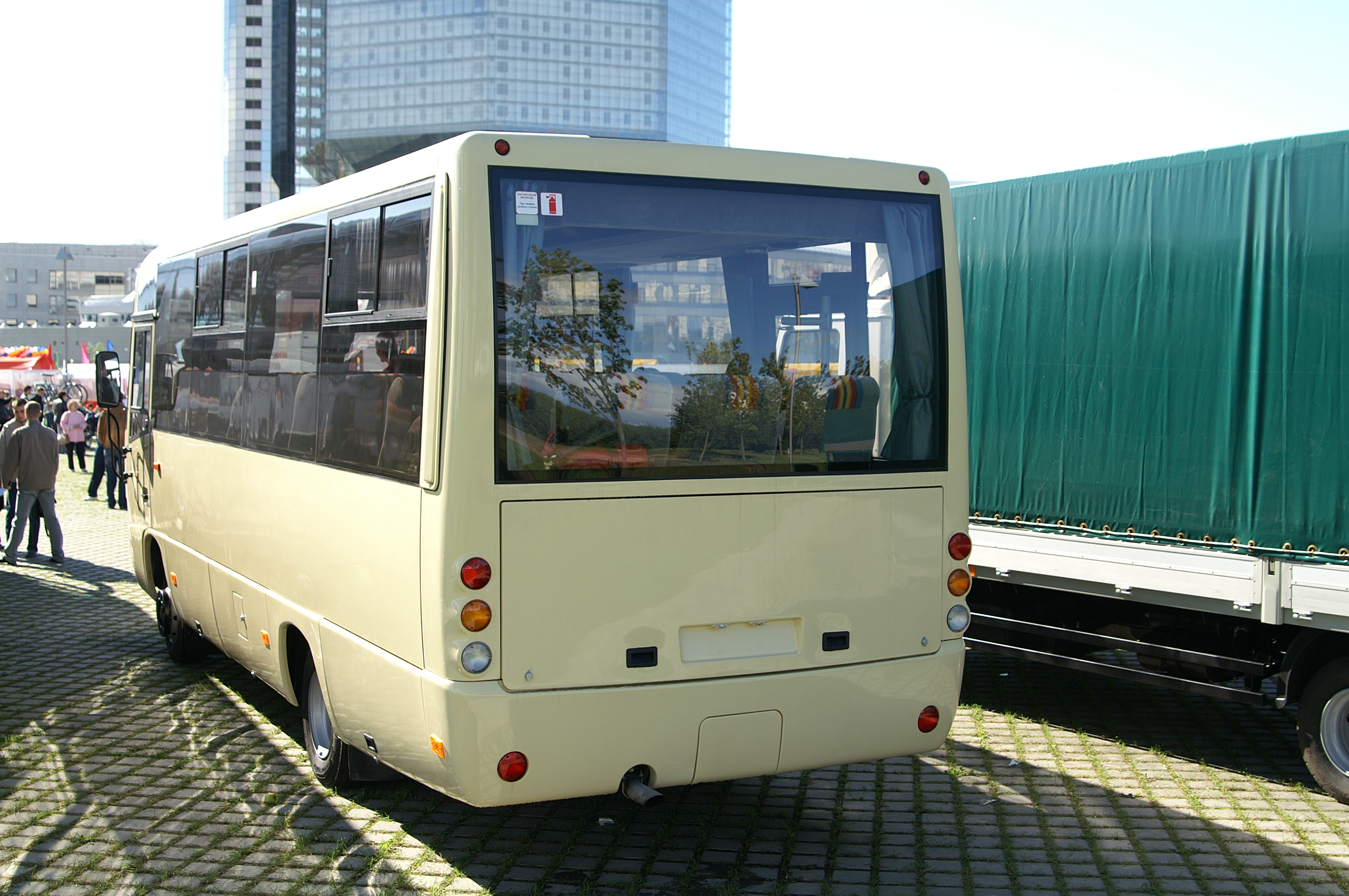 Belarussian bus MAZ-256 in Minsk, Belarus.